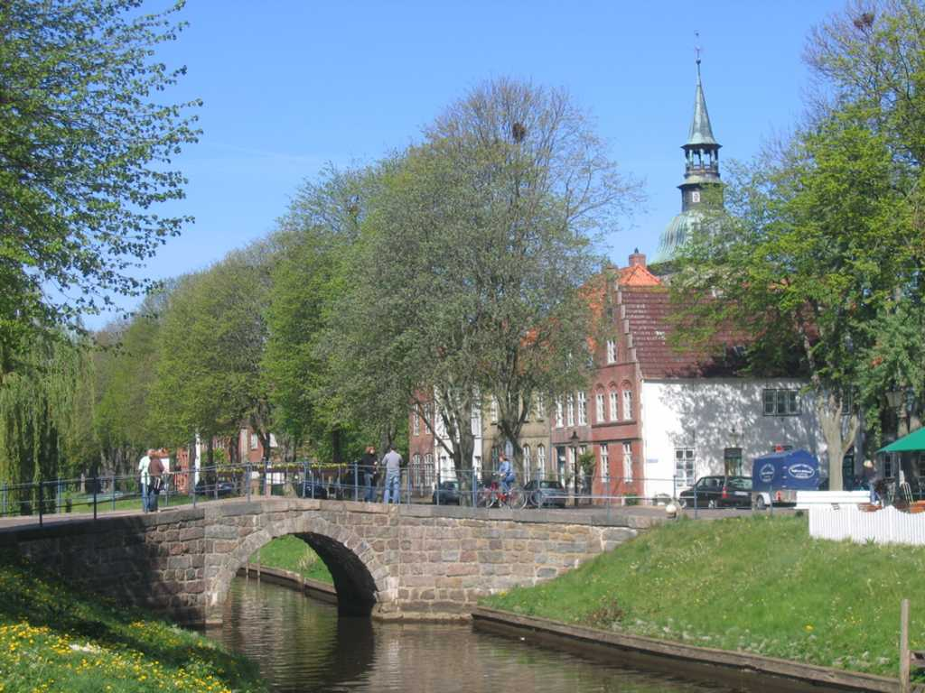 malerwinkel (so called painters-corner) in Friedrichstadt / Germany